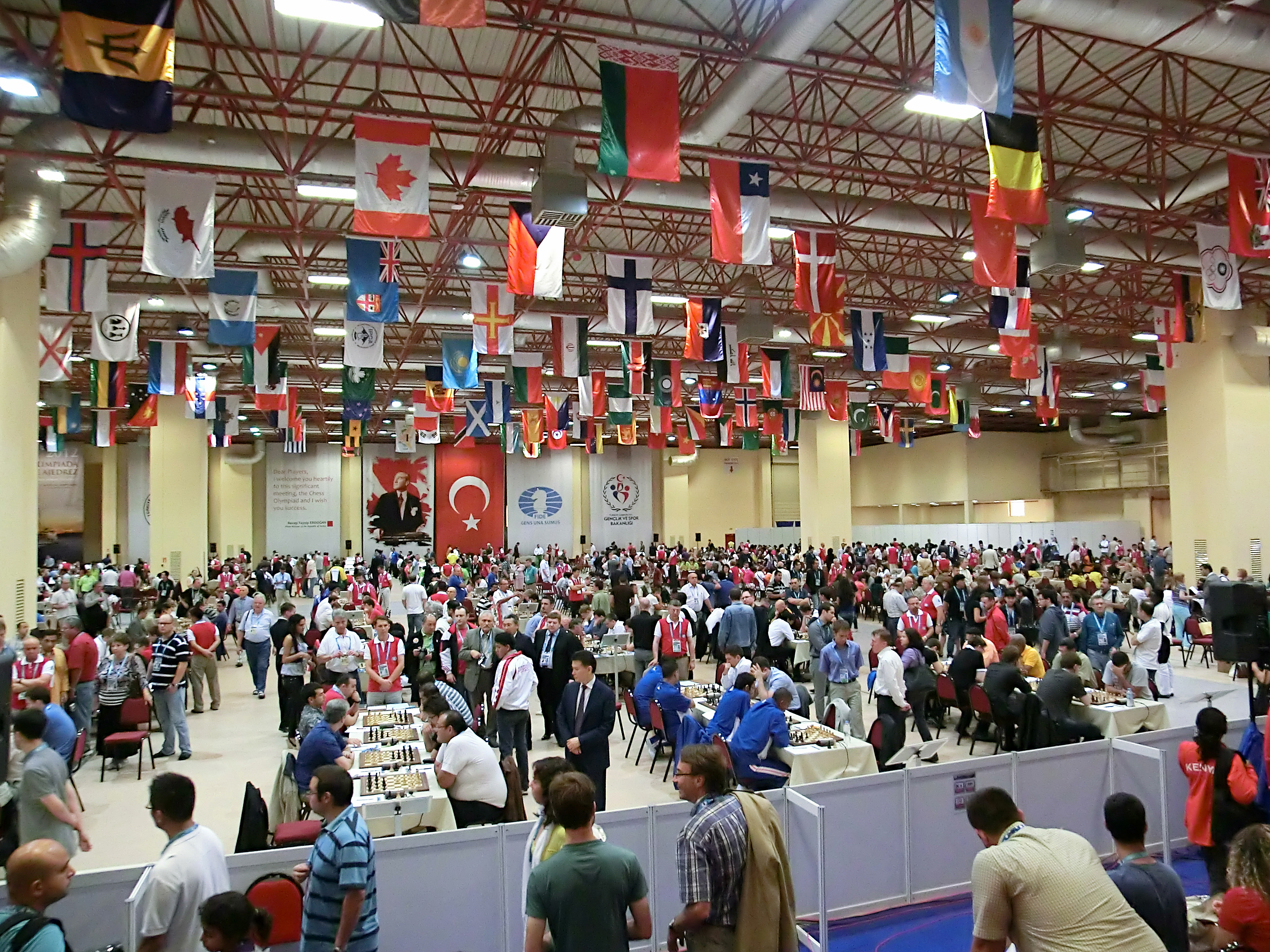 Chess Olympiad 2012 in Istanbul, playing hall